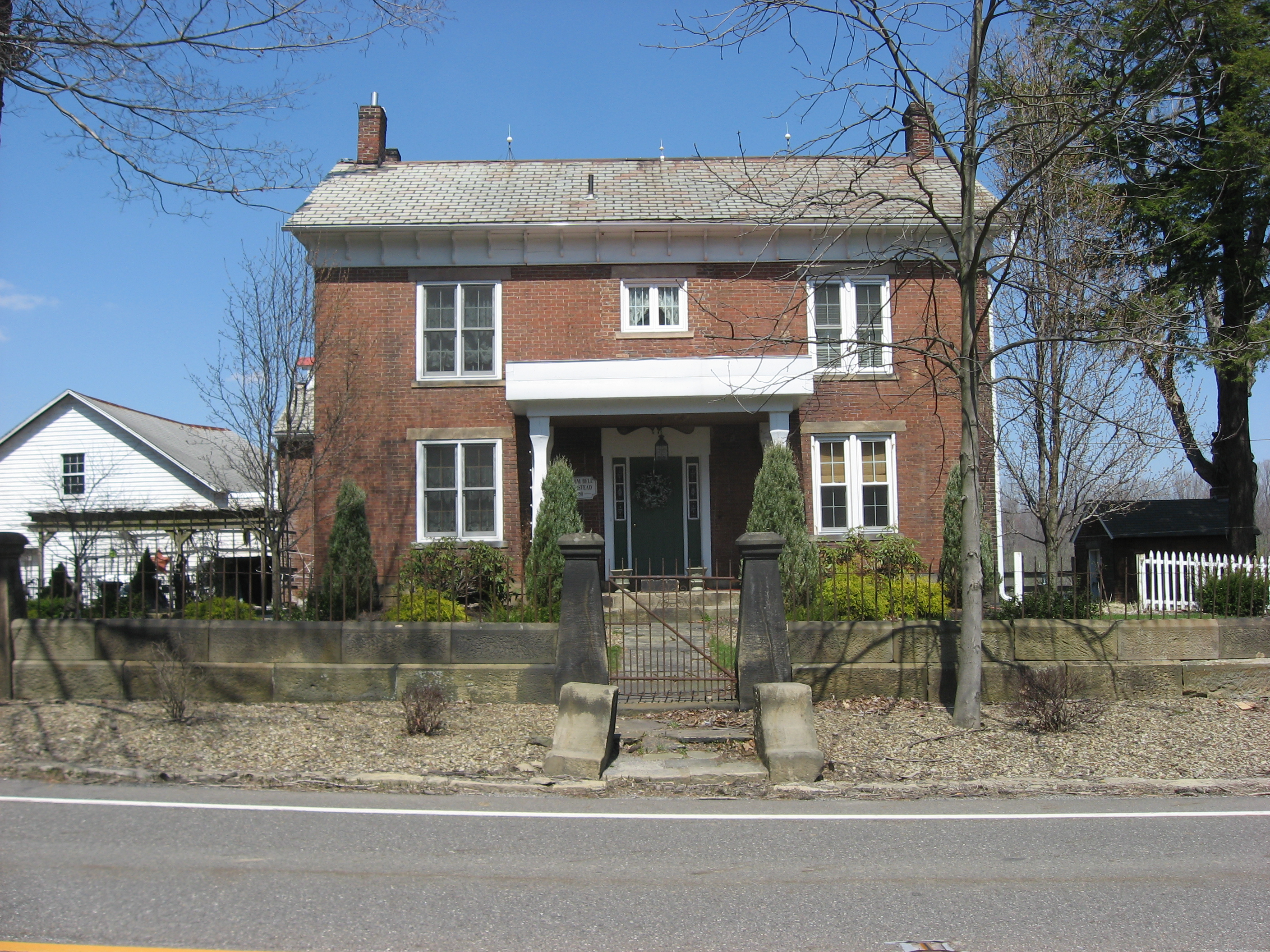 Front of the Hiram Bell Farmstead, located at 43628 State Route 517 in Fairfield Township, Columbiana County, Ohio, United States, south of the city of Columbiana. Built in 1850, the house and adjoining buildings are listed as a historic district on the National Register of Historic Places.